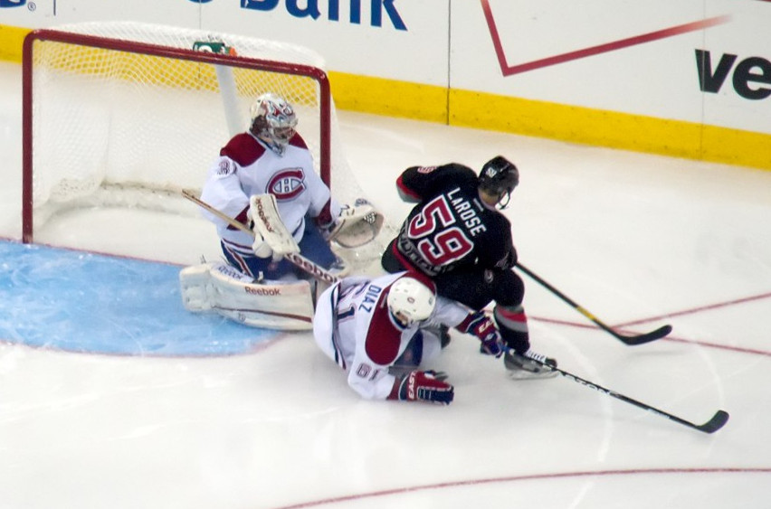 Goaltender Carey Price of the Montreal Canadiens watches a battle for the puck between Raphael Diaz and Chad LaRose of the Carolina Hurricanes